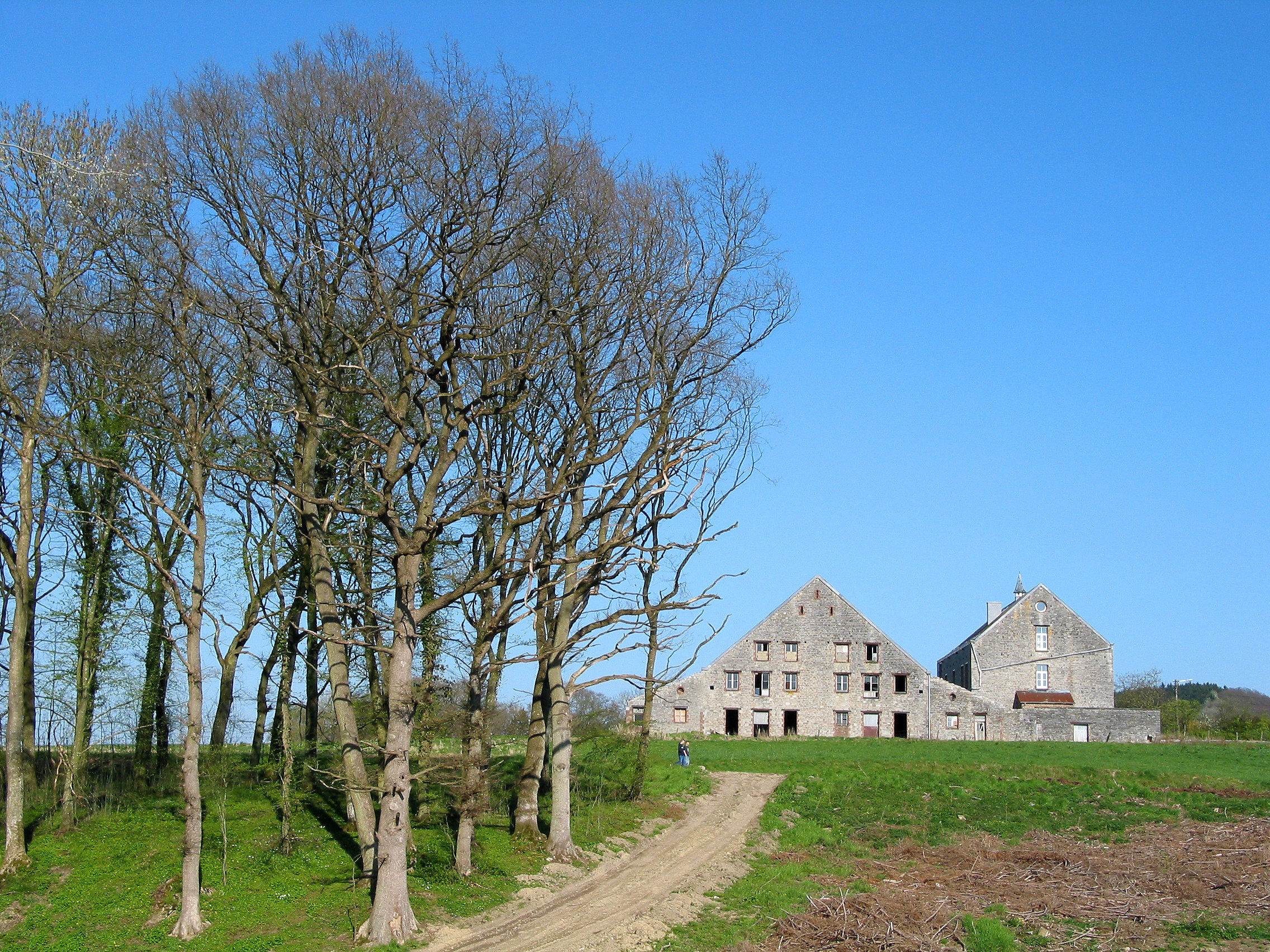 Forrières (Belgium) rue de Rochefort,12 – previous « Saint Monon » farm .